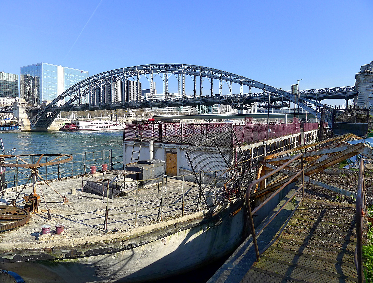 Viaduc d'Austerlitz - Paris